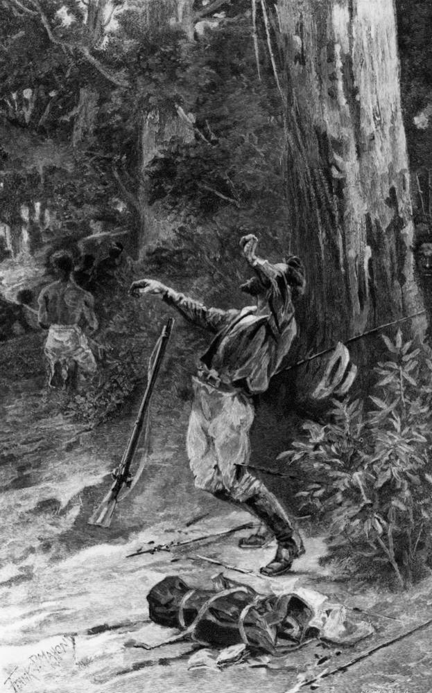 Sketch of explorer Edmund Kennedy, ca. 1848 In 1848 the Assistant-Surveyor of New South Wales, Edmund Kennedy, led an expedition to explore Cape York Peninsula. In the previous year he had discovered the Thomson River and established that the Barcoo River was part of Cooper's Creek. Arriving at Rockingham Bay (north of Townsville) in May, Kennedy's party, after much privation and toil, reached Weymouth Bay, where they established a depot. Kennedy, with four others, Costigan, Dunn, Luff, and a indigenous Australian, Jacky Jacky, left this depot in an endeavour to reach Cape York, where a relief ship was expected.